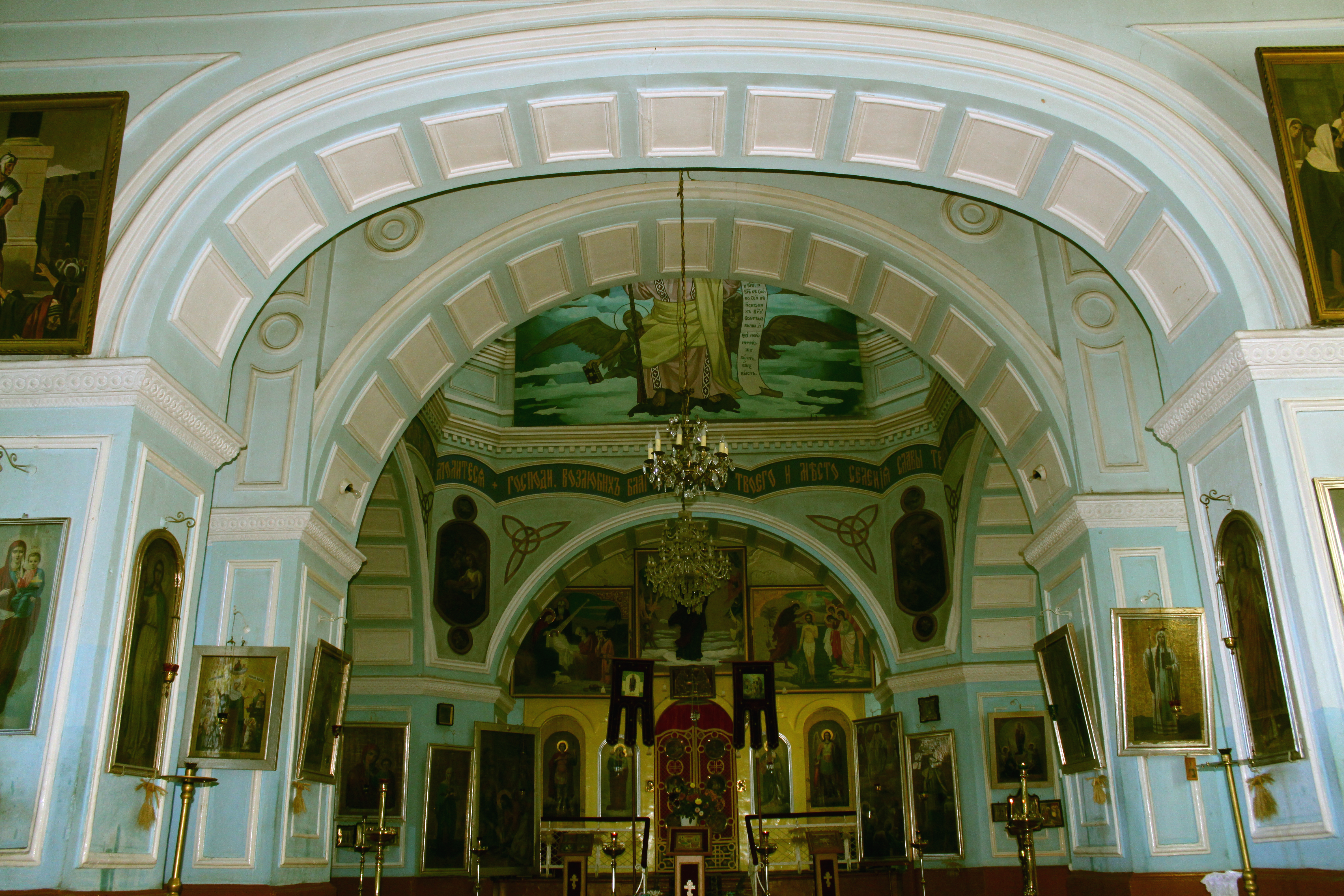 Alexander Nevsky church in Ganja